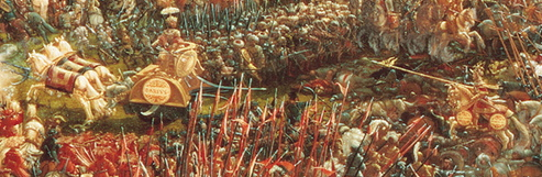 Battle of Alexander the Great against Persian King Darius